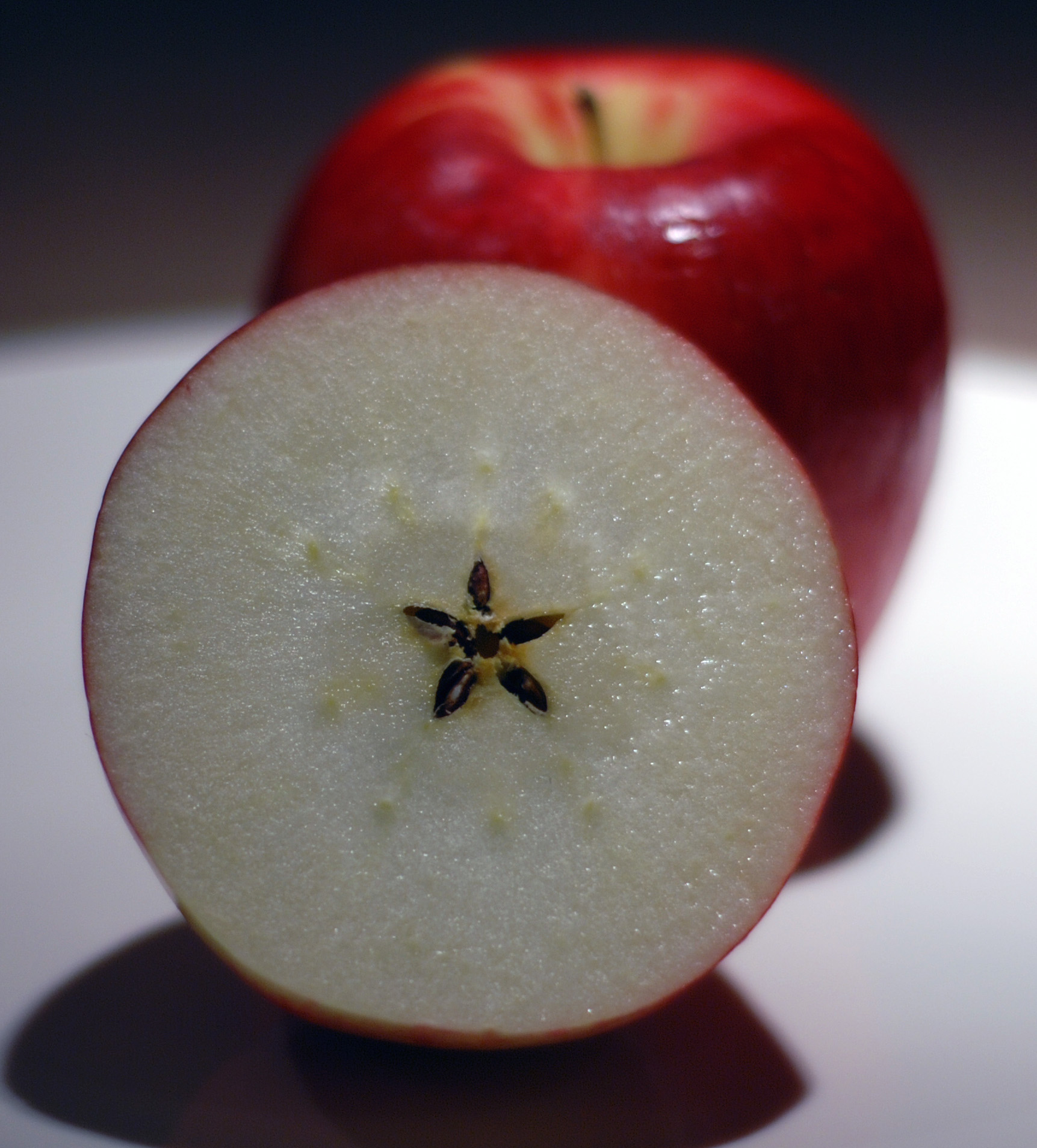 An image of an apple